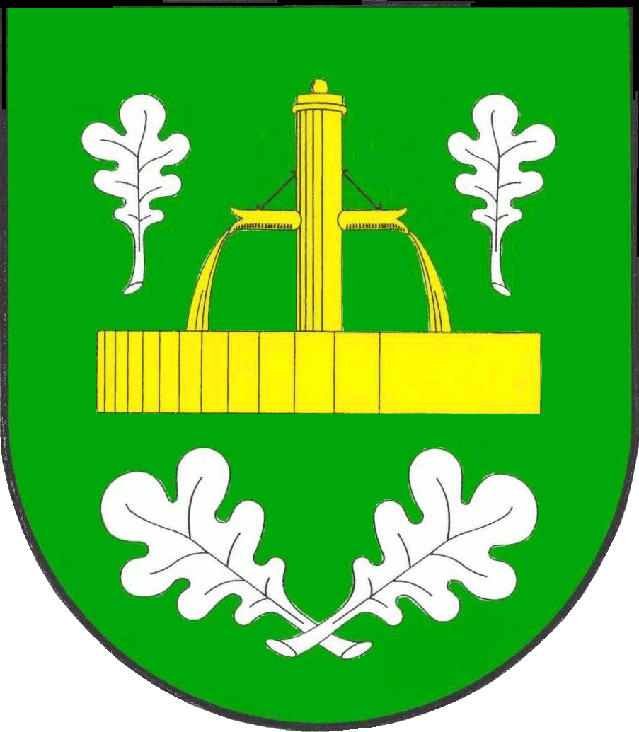 Coat of arms of the municipality Quickborn in Schleswig-Holstein, Germany.